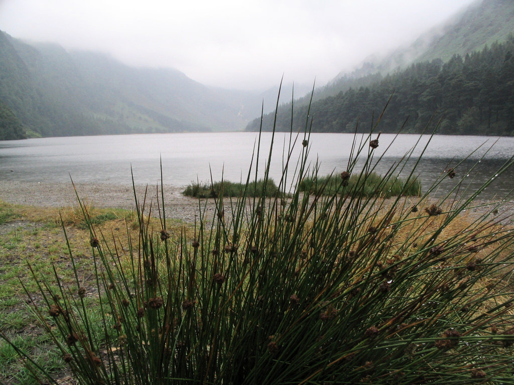 Glendalough Lake in Ireland Lac de Glendalough en Irlande. Ancien lac glaciaire